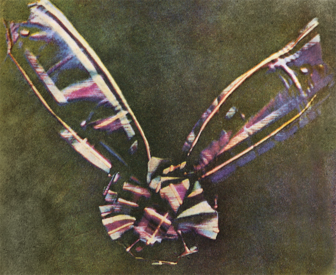 Tartan Ribbon, photograph taken by James Clerk Maxwell in 1861. Considered the first durable colour photographic image, and the very first made by the three-colour method Maxwell first suggested in 1855. Maxwell had the photographer Thomas Sutton photograph a tartan ribbon three times, each time with a different colour filter (red, green, or blue-violet) over the lens. The three photographs were developed, printed on glass, then projected onto a screen with three different projectors, each equipped with the same colour filter used to photograph it. When superimposed on the screen, the three images formed a full-colour image. Maxwell's three-colour approach underlies nearly all forms of colour photography, whether film-based, analogue video, or digital. The three photographic plates now reside in a small museum at 14 India Street, Edinburgh, the house where Maxwell was born.